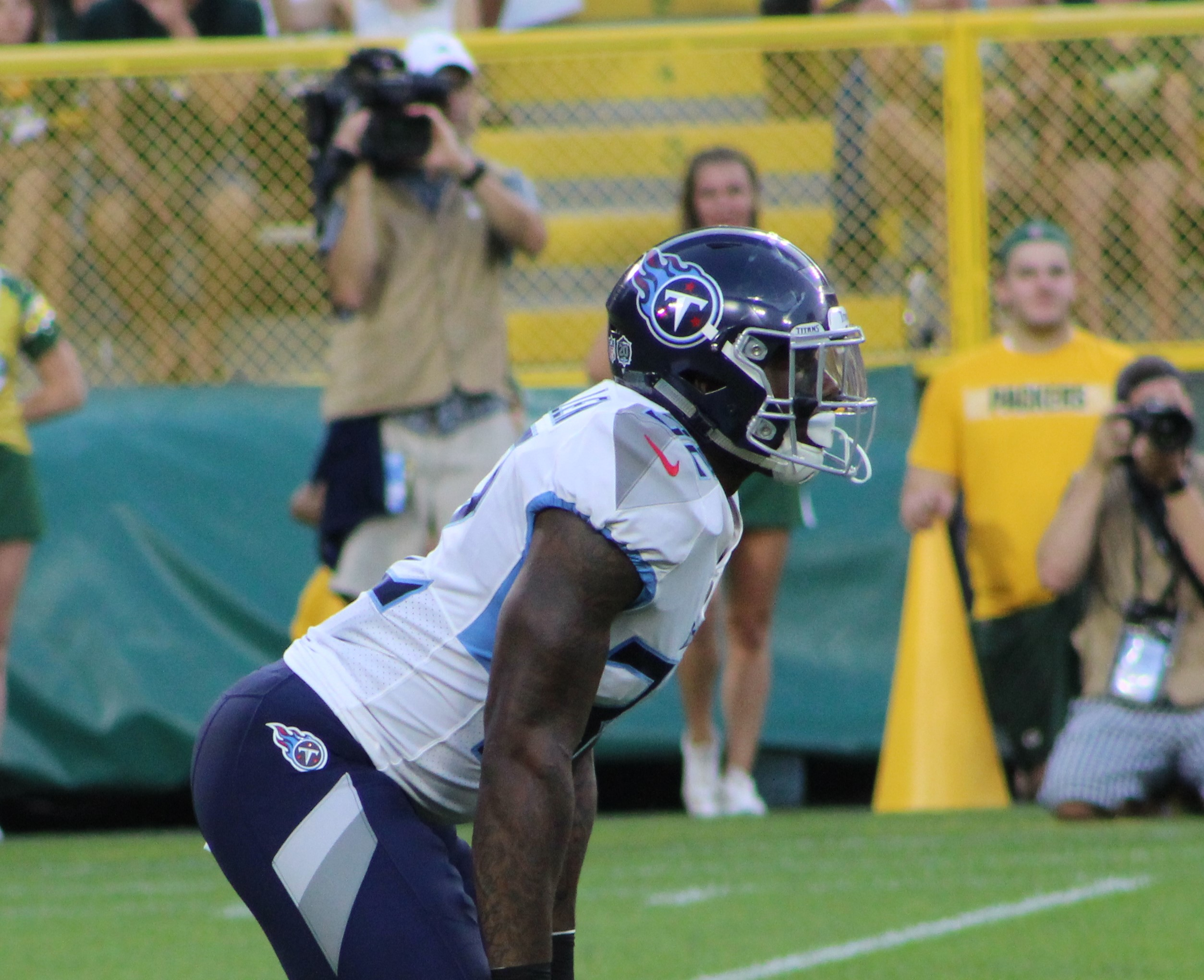 David Fluellen, Tennessee Titans at Green Bay Packers (Preseason), August 9, 2018